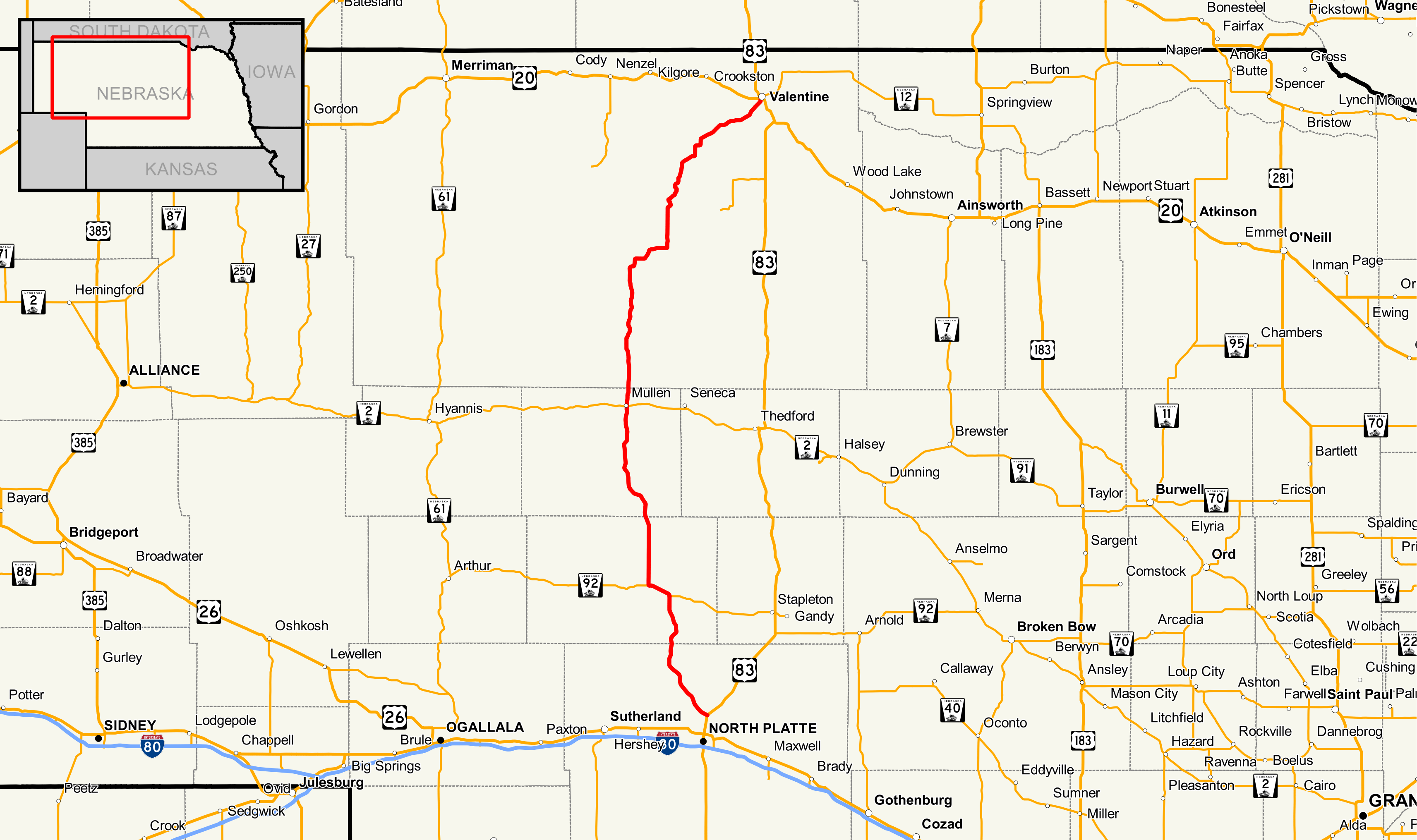 Map of Nebraska Highway 97 Data Sources: Nebraska Highways - - Dec 2016 Nebraska County Boundaries - - Dec 2016 Nebraska City Boundaries - - Dec 2016 This PNG graphic was created with QGIS